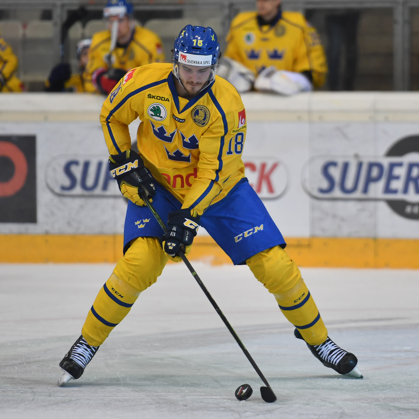 6/4/2017, Vienna, Austria, Sport, Ice Hockey, Friendly match Austria vs Sweden.